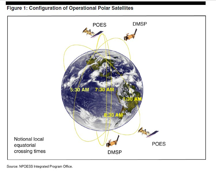 Configuration of Operational Polar Satellites